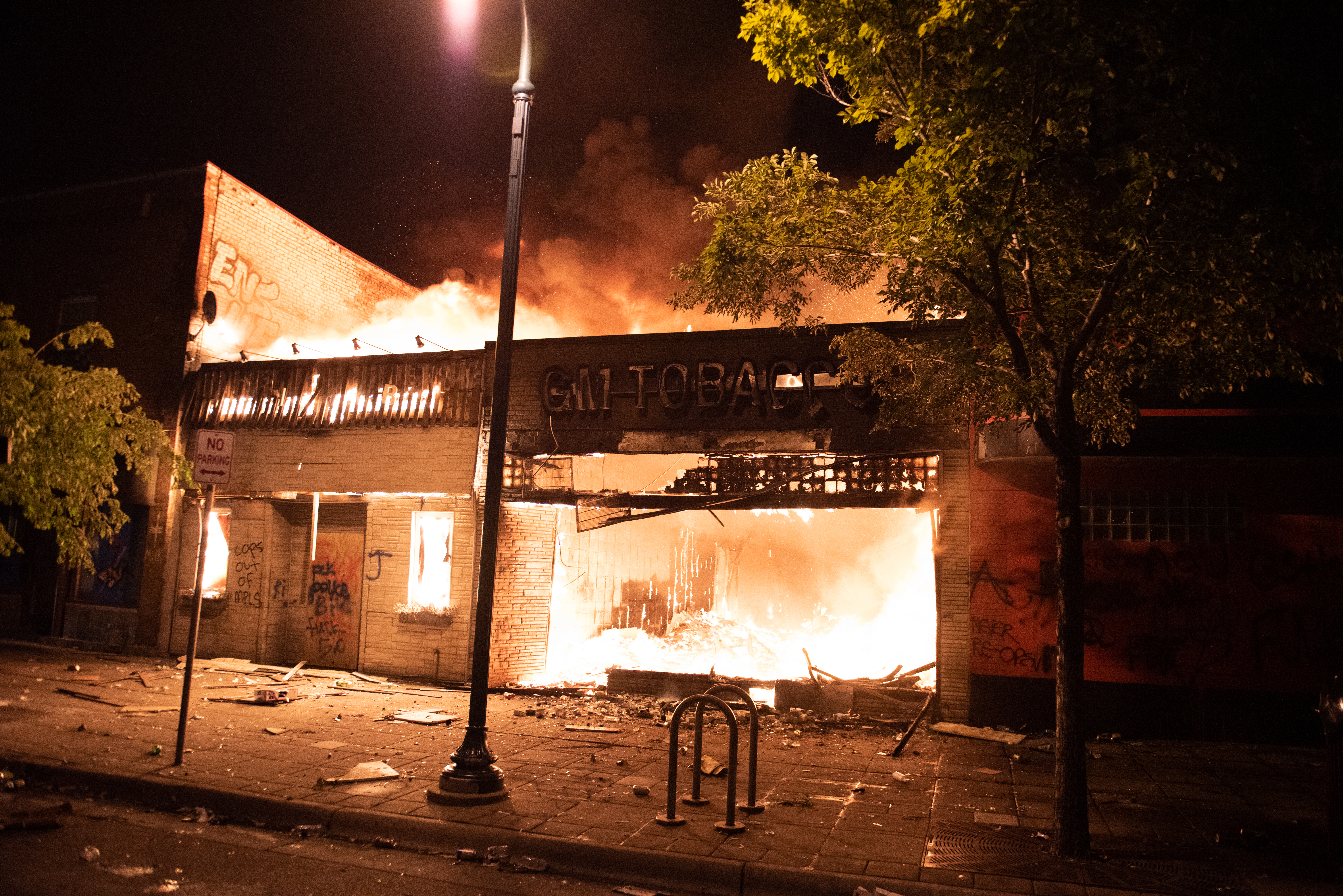 Following the death of George Floyd, GM Tobacco on Lake Street was among the businesses that were set ablaze on May 28, 2020. GM Tobacco was next door to Minnehaha Lake Wine and Spirits and near the Minneapolis 3rd Police Precinct, which were both also set on fire.